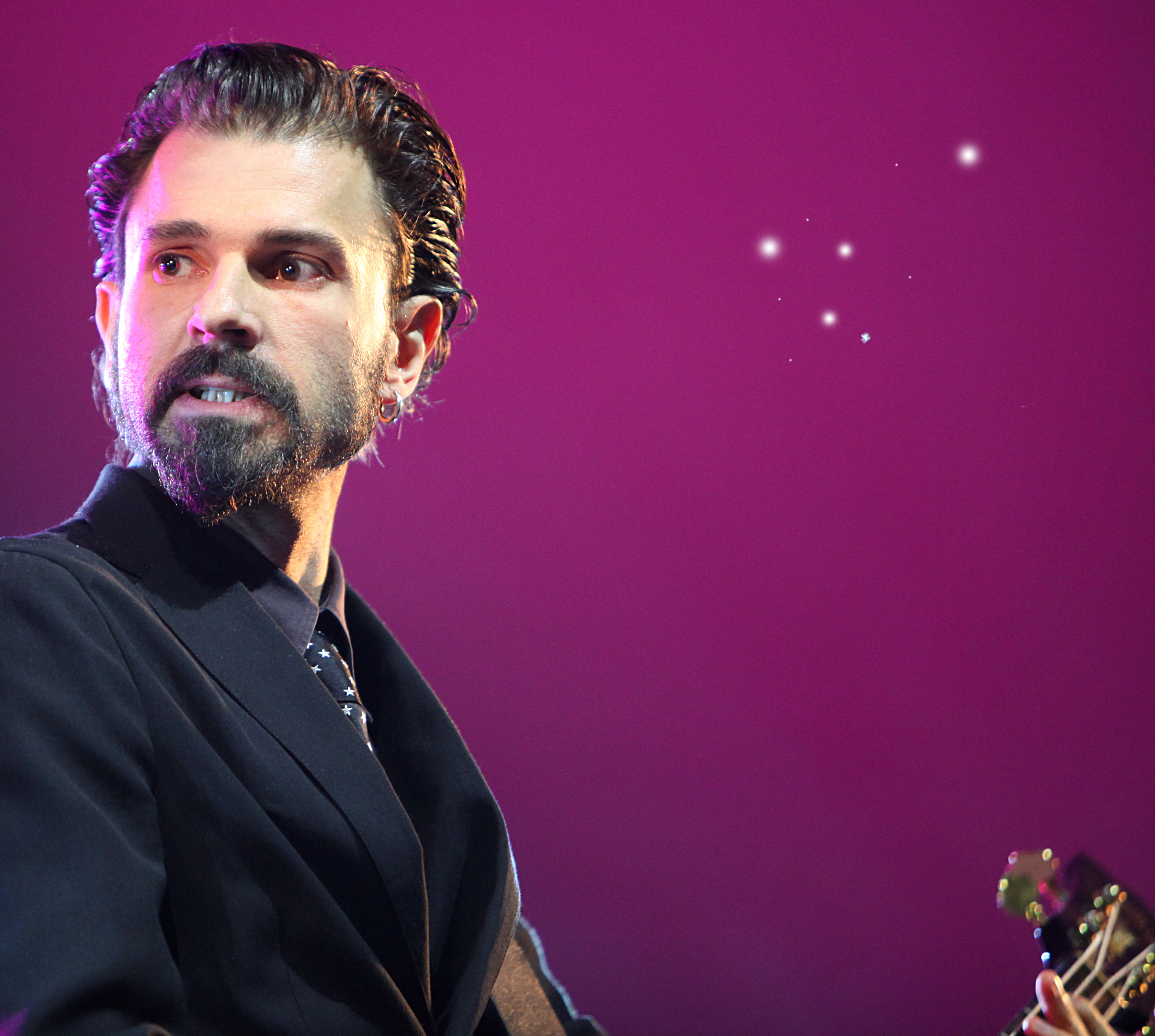 Nathan Larson playing with A Camp at Stockholm Pride Festival 2009.